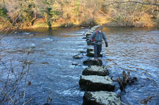 Stepping Stones Across the River Eden Very slippery, with deep cold water both sides, this crossing is for the brave and well-balanced!